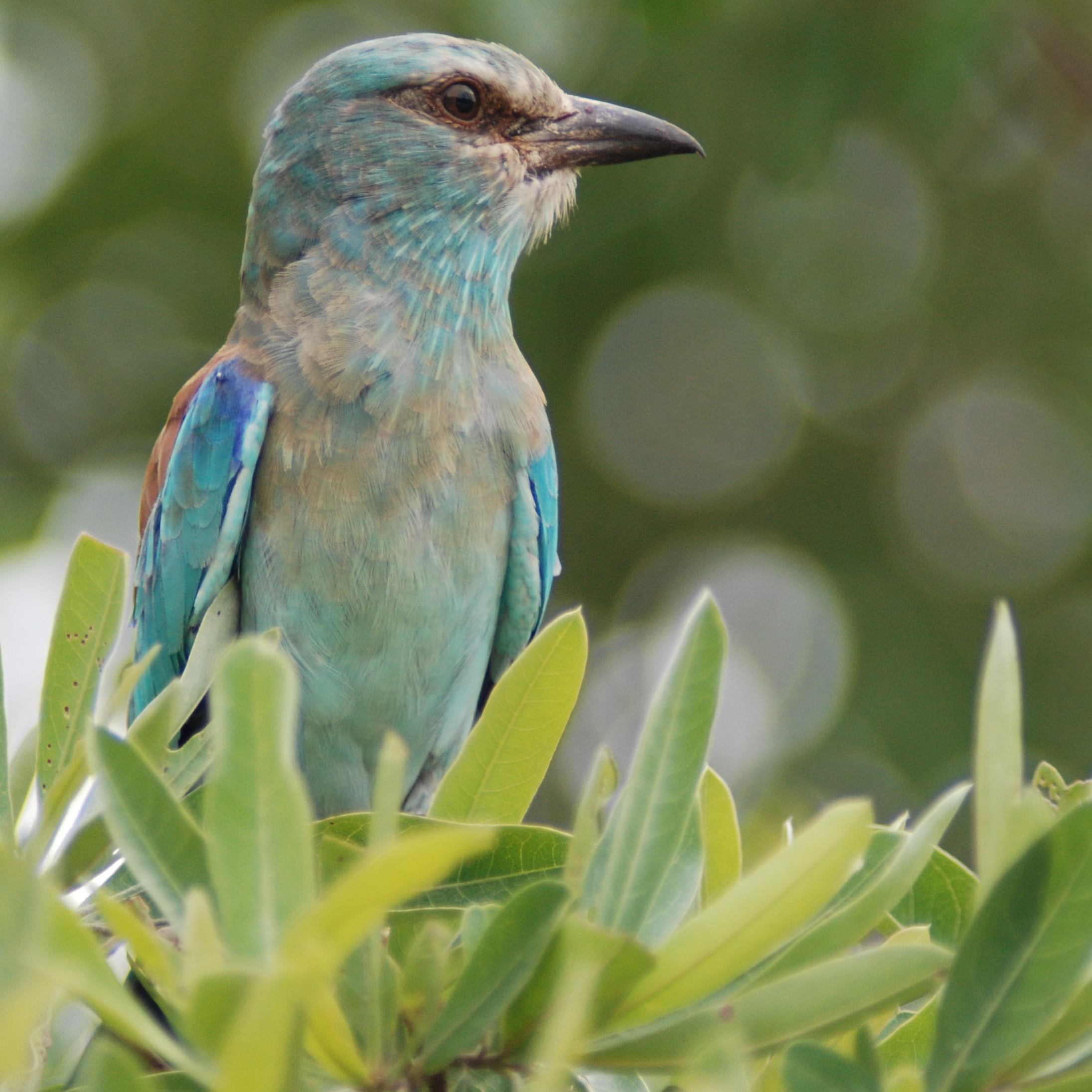 European Roller in the Kruger National Park